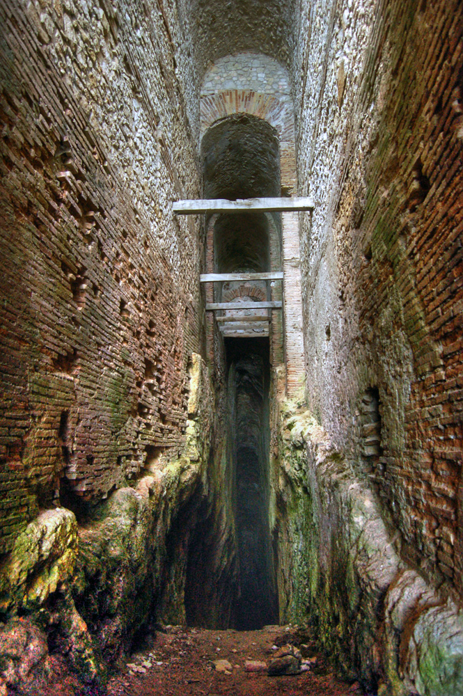 Tunnels Claudio (internal)